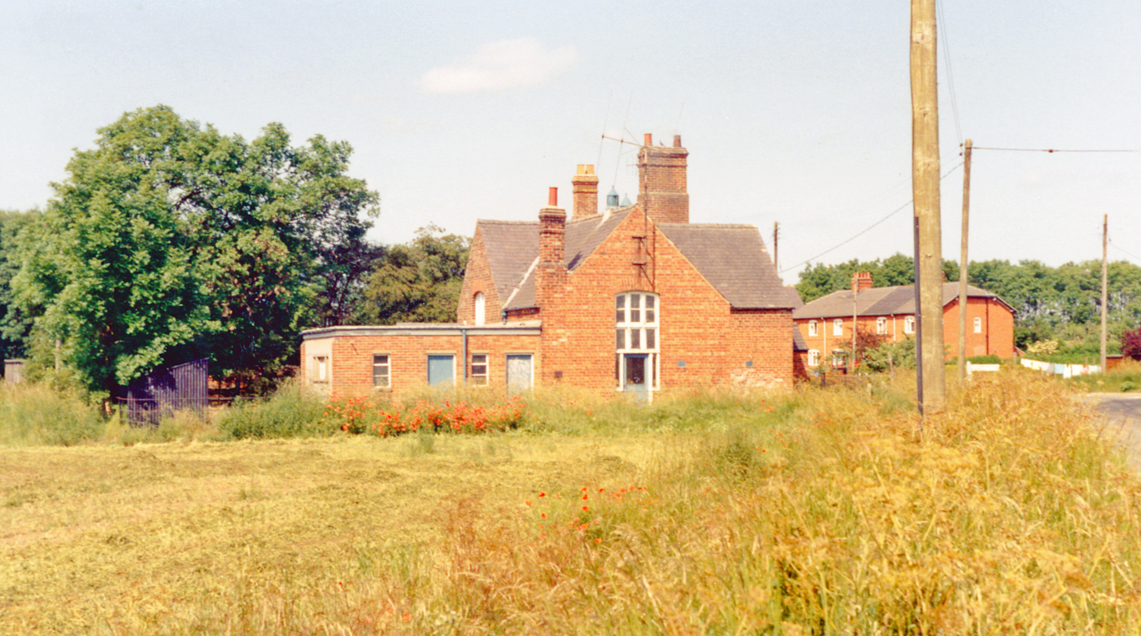 Tumby Woodside station (remains), 1992. View northward across course of the ex-GNR (Lincoln) - Woodhall Junction - Firsby line, closed 5/10/70. Judging from the view in 2007, File:Tumby Woodside Station.jpg, the building has not been preserved.